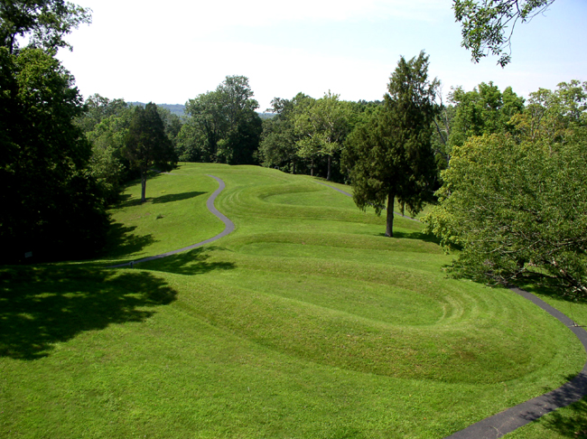 A photo of Serpent Mound in Peebles Ohio